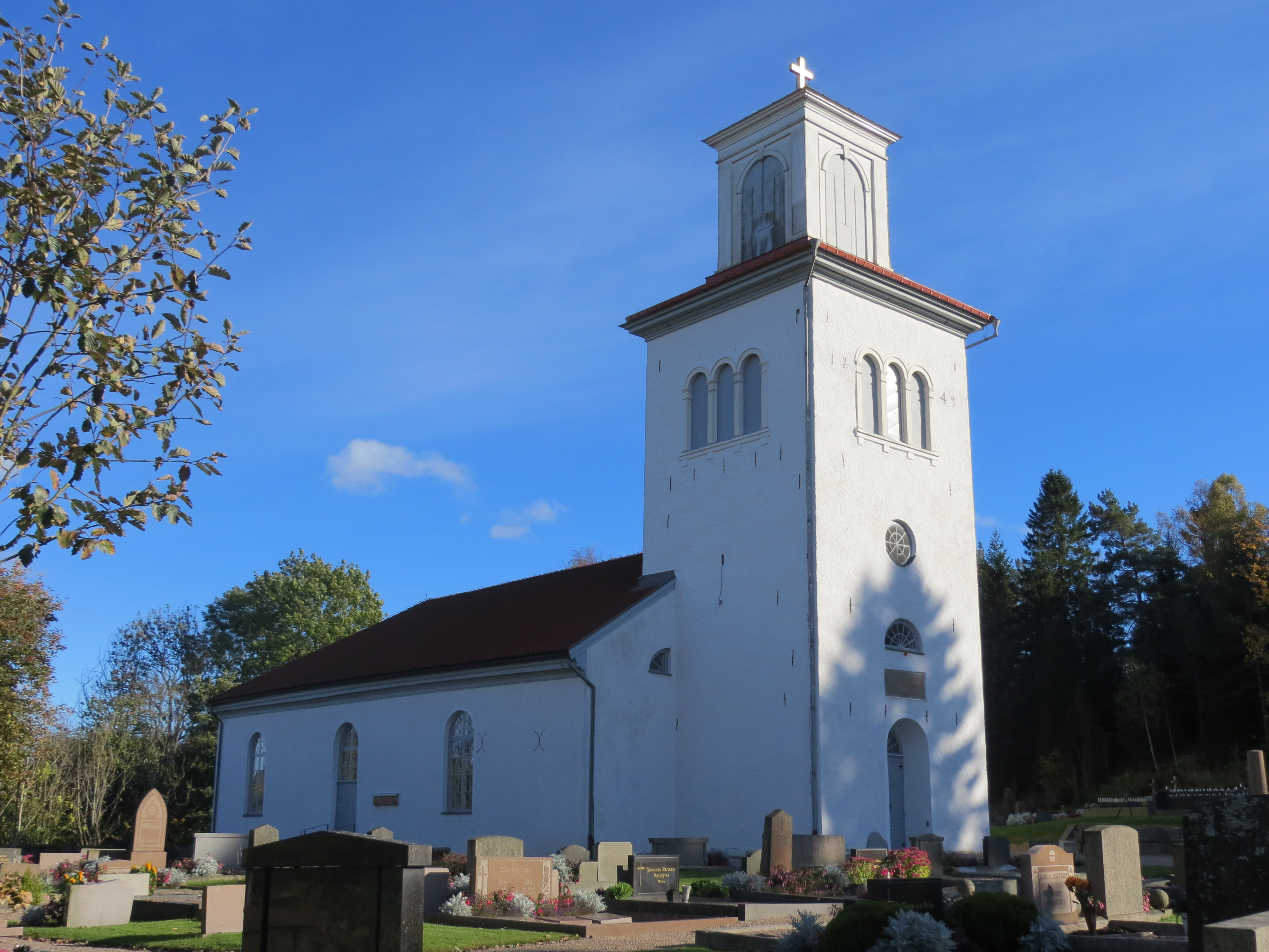 Herrestad church in the western part of Uddevalla municipality, western Sweden. Close to the Torp mall.